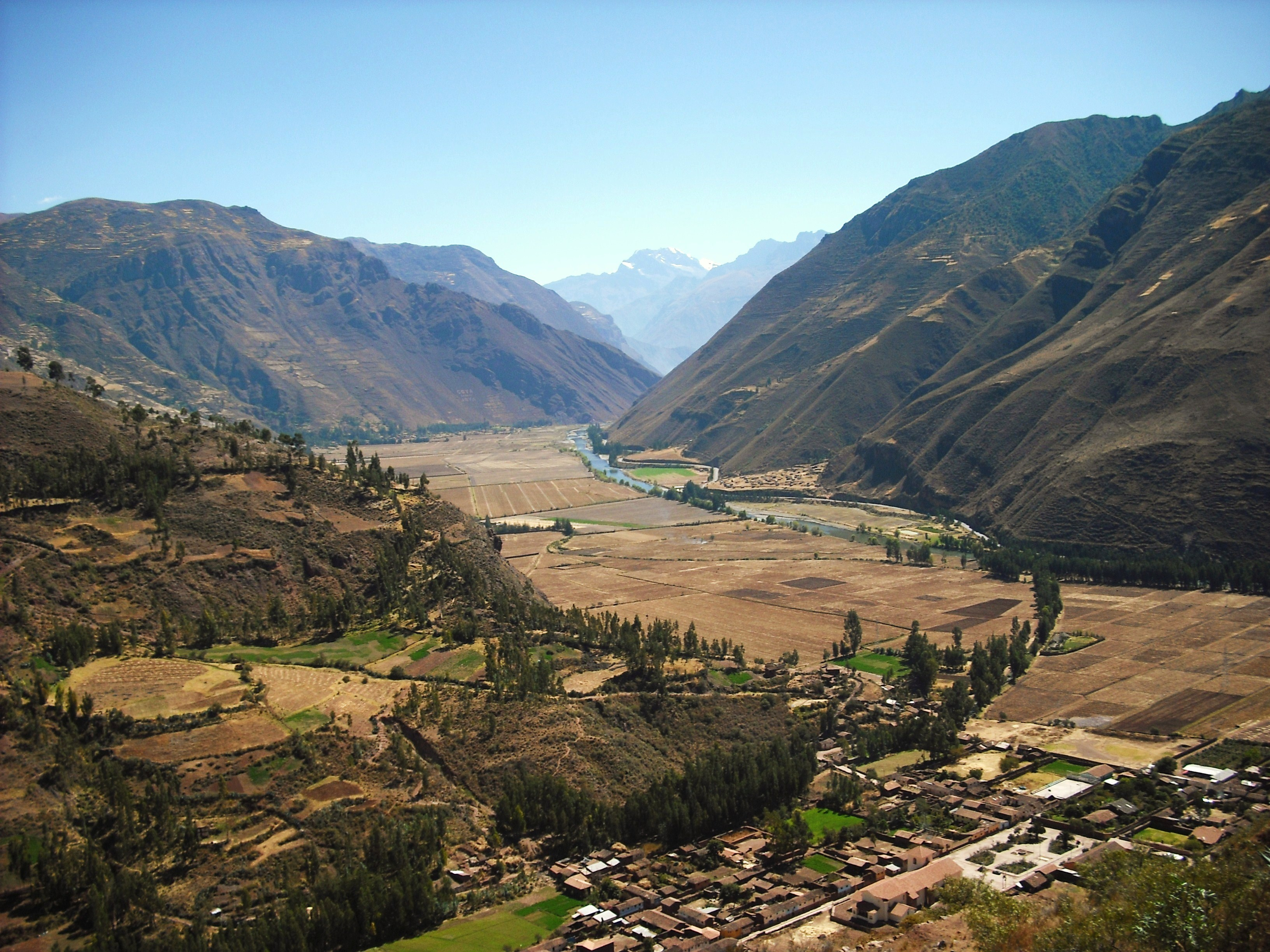 Urubamba Valley, Sacred Valley of the Incas, Peru. The picture was taken on the road leading to Písac, it's looking toward Calca. The town in the foreground is Taray (which was heavily damaged by floods in 2010). The approximate location is: -13.433761,-71.864247.